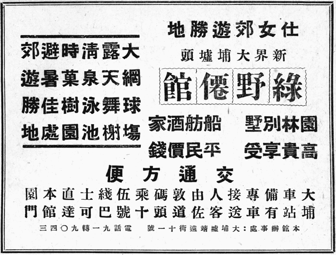 Advertisement from "Green Ville Amusement Park" of Tai Po, Hong Kong (in 1949) 中文（香港）: 華僑日報 香港年鑑 1949年 刊登的「綠野僊館」之廣告。